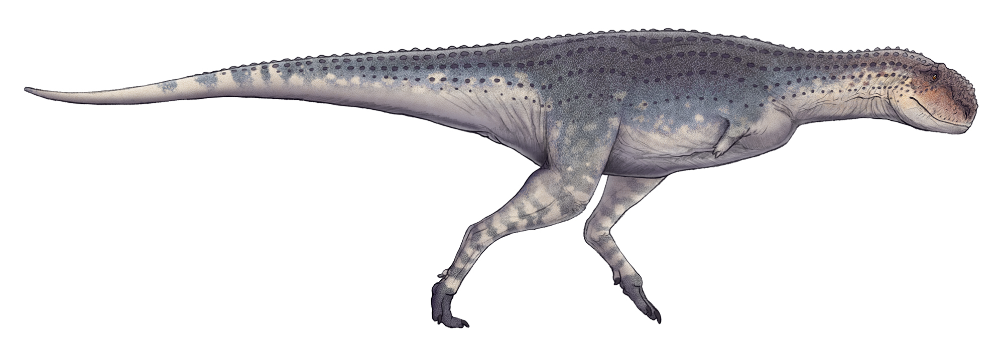 Life restoration of Quilmesaurus curriei